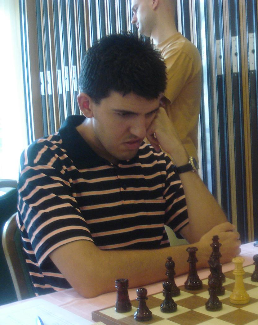 GM Josep Manuel López Martínez Spain, XXVI Open Internacional d'Andorra.